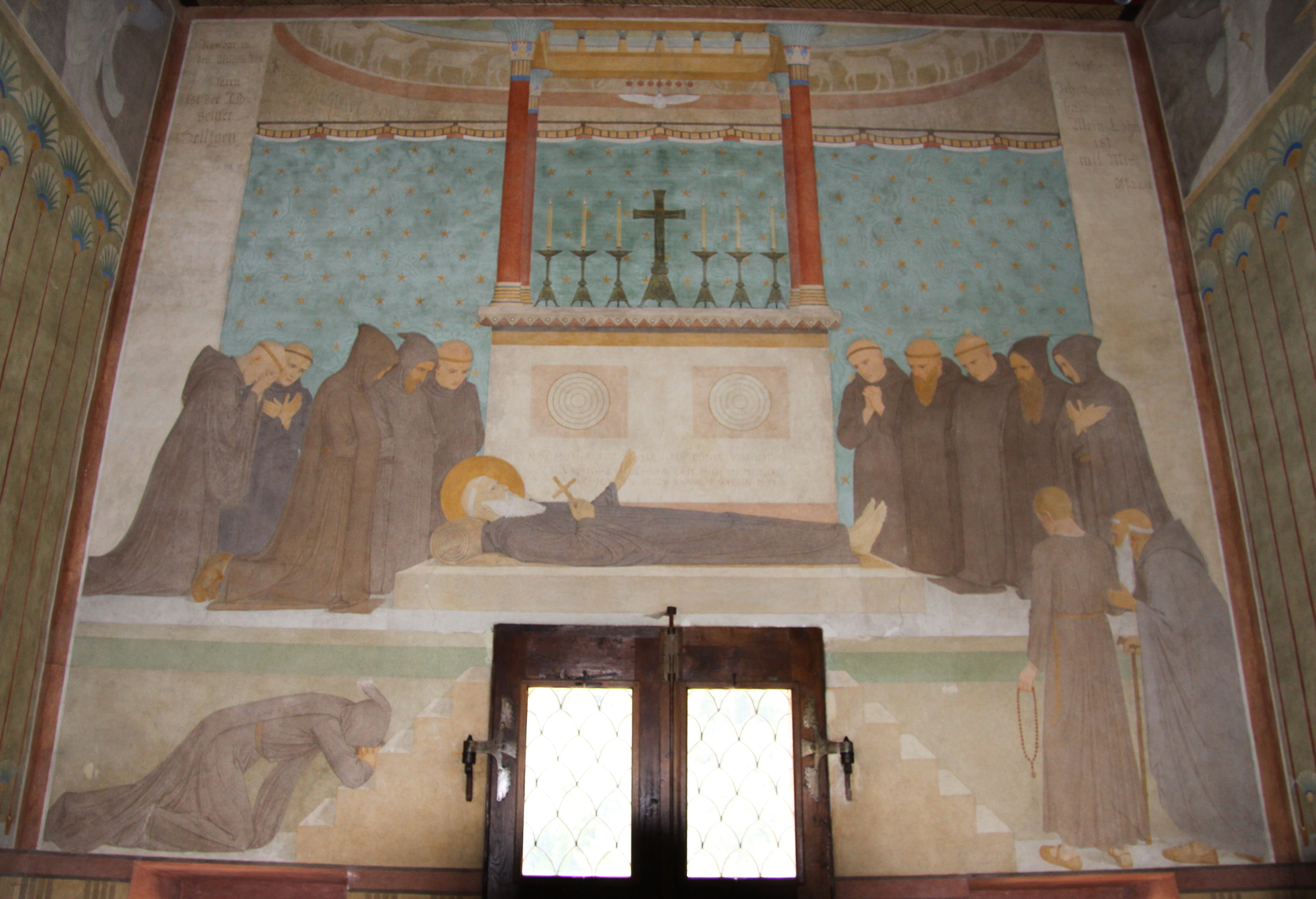 St.-Maurus-Kapelle, Beuron (Donautal), erbaut 1868–1870, Architect: Desiderius Lenz. Wallpicture of Holy Maurus Juli 2016